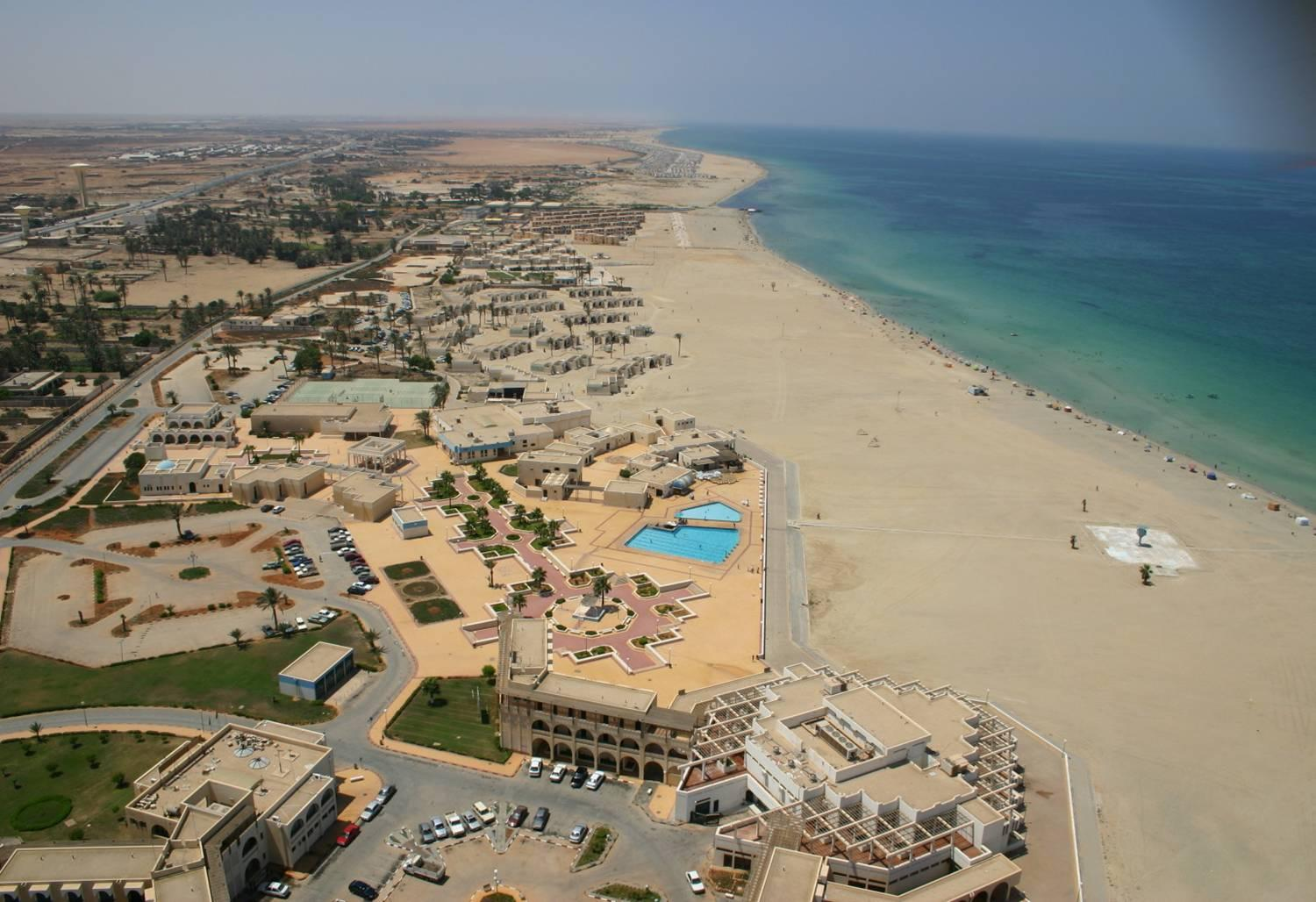 beach view 2